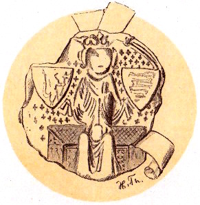 Seal of King Olaf IV Haakonsson of Norway/Olaf II of Denmark, based on two documents, dated 20 April 1382, Tønsberg, and 23 June 1384, Bergen. Text: "[s' olavi ⋅ dei ⋅ gracia ⋅ no]RICORVM : DANOR[vm sclauorum gothorumque regis]". Size: 66 mm.